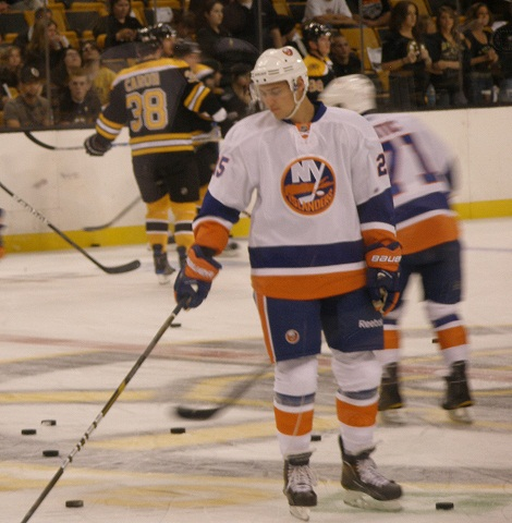 Nino Niederreiter before a rookie game between the New York Islanders and Boston Bruins